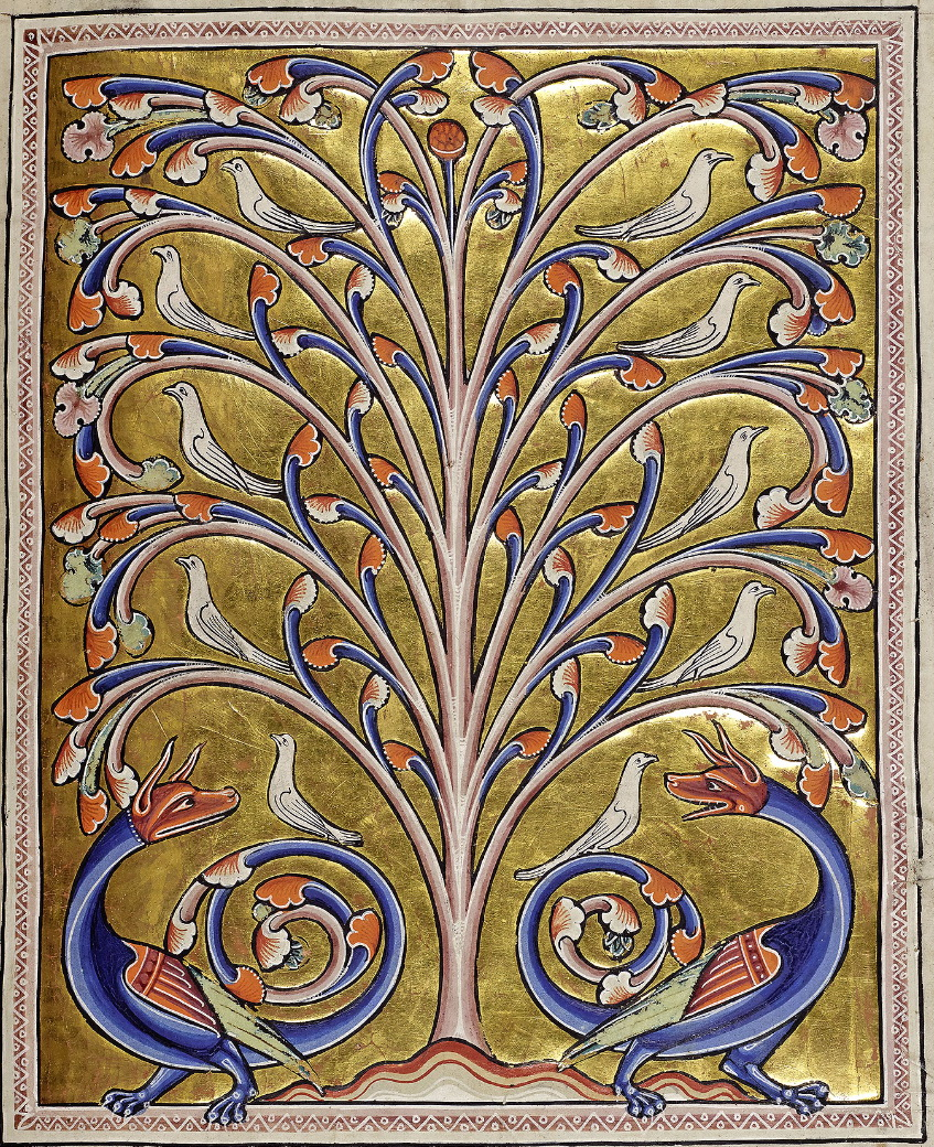 Perindens, a magic tree and keeper of the birds.